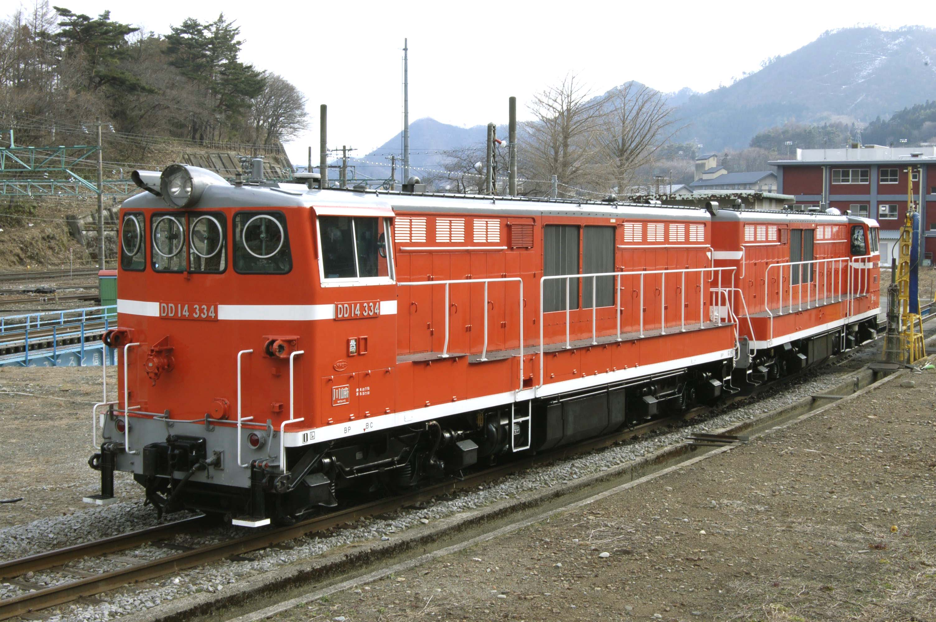 A pair of JR East Class DD14 diesel snowplough locomotives, including DD14 334, with their rotary snowplough units detached